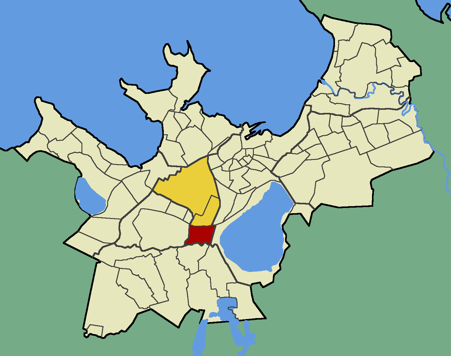 Map of Tallinn (Estonia) with borders of the quarters, Kristiine district and Järve quarter emphasised